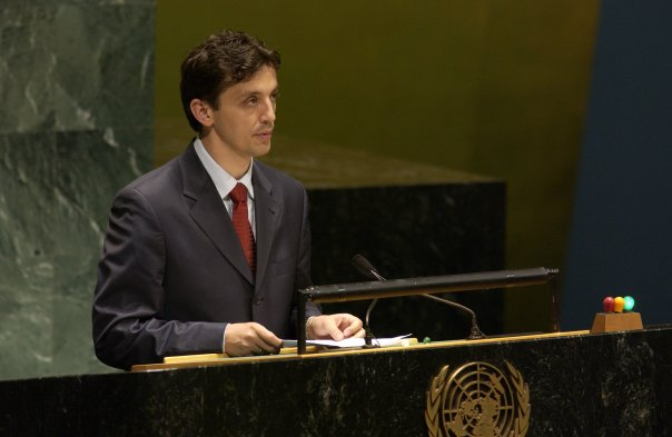 Predrag Boskovic delivering the speech at the United Nations General Asembley (2005).